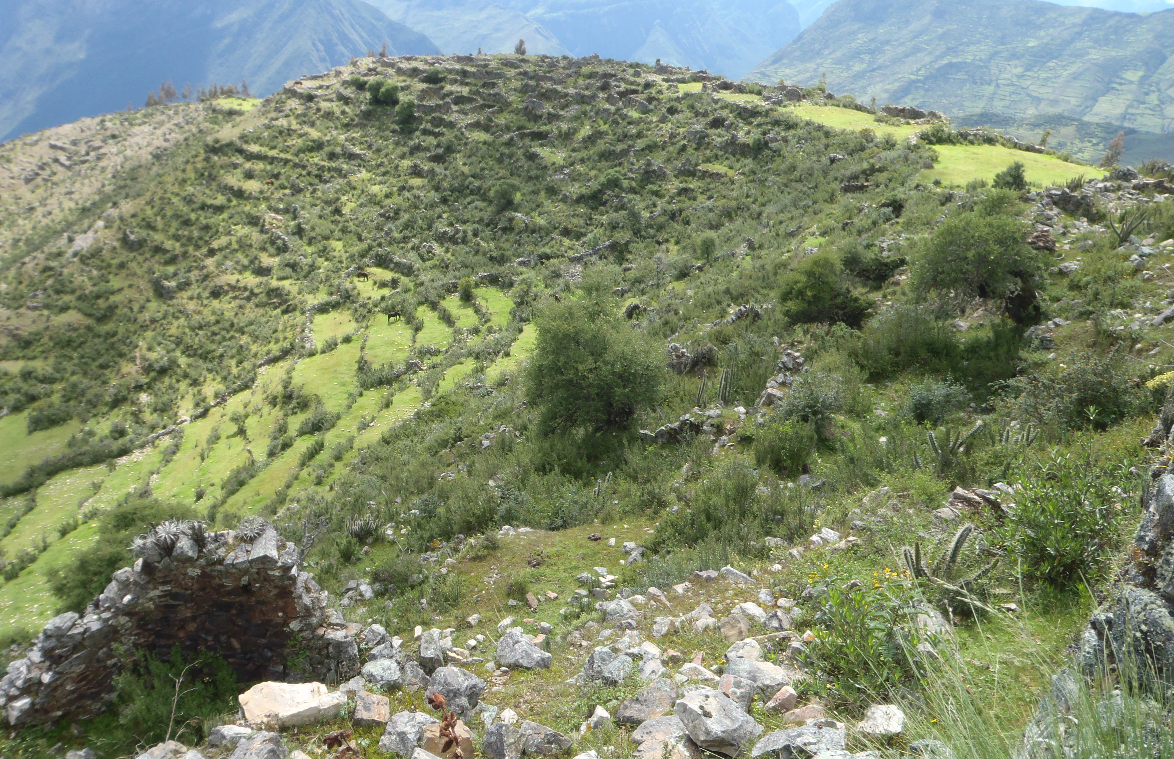 Yanaca is a pre-inca ruins group situated in Peru, Apurimac region, Yanaca district. Tunay Kassa is one of these ancient village, situated at 4 km from Yanaca village. This picture represents a large view of Tunay Kassa. We can see in the back a part of the village, and a lot of pre-inca anden. We can notice on the right top several main places of the village.